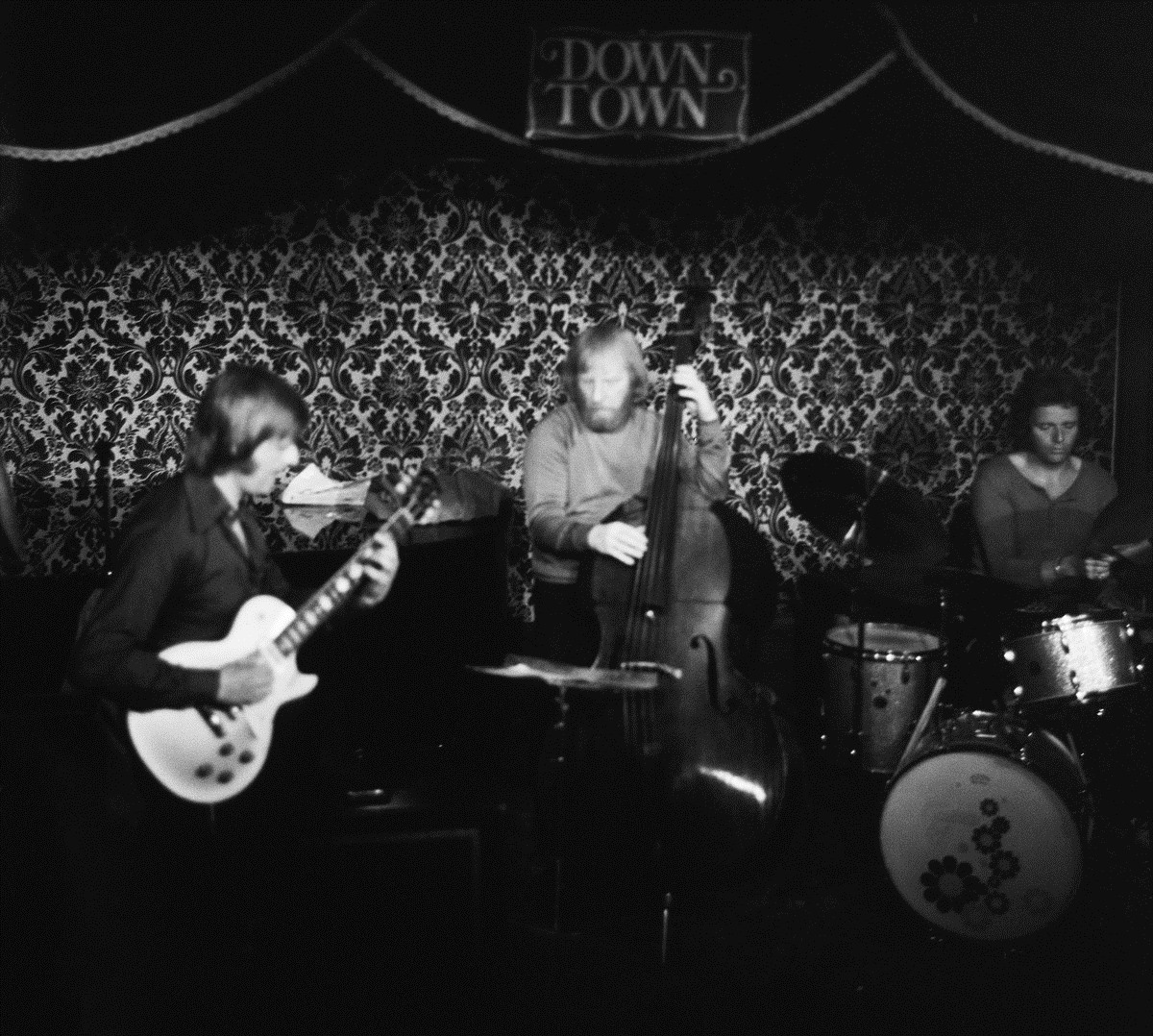 Rune Gustafsson, Keith Moore "Red" Mitchell and Egil "Bop" Johansen giving a concert at Down Town jazz club in Oslo, Norway.